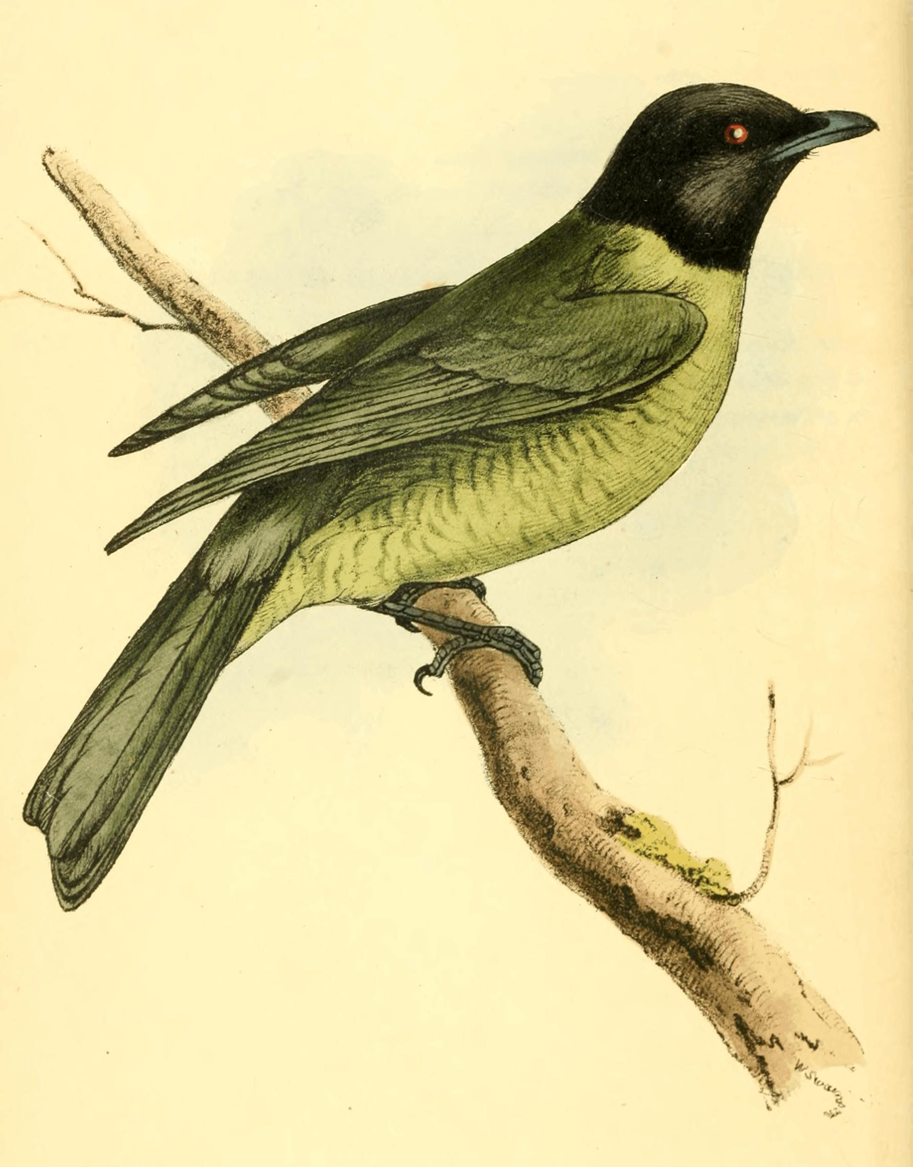 Plate 25. Procnias melanocephalus. Black-headed Berry-eater. Modern accepted name (2012) is Carpornis melanocephala.